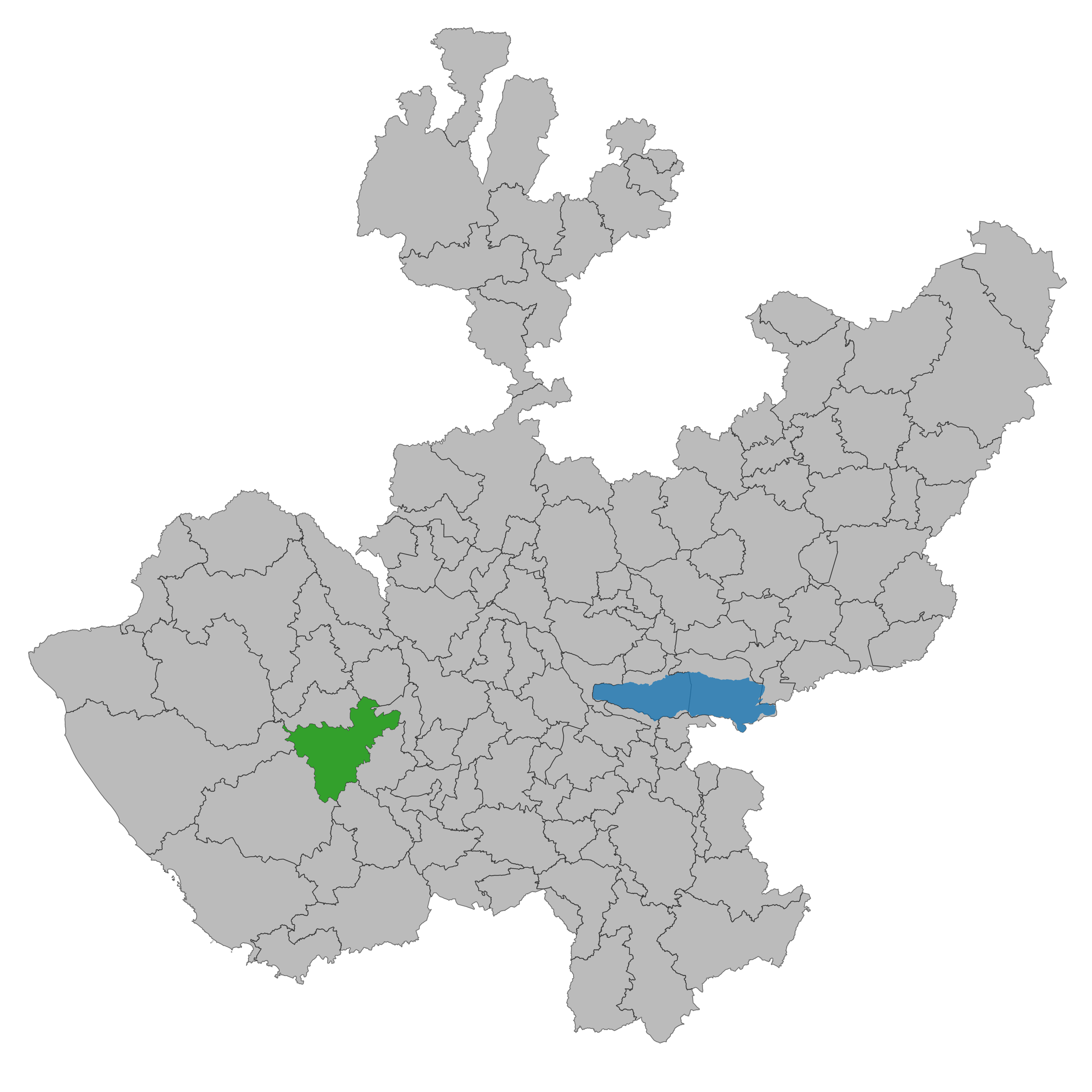 Municipality of Jalisco. Prepared with the software QGIS version 2.8.2 Wien & with information of SCINCE 2010 version 05/2013